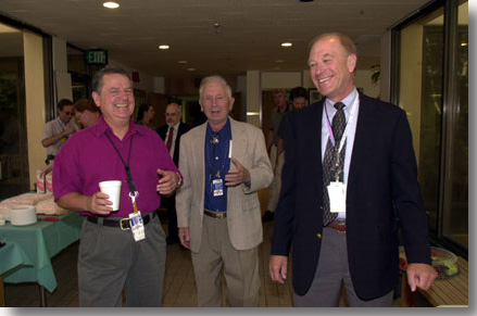 Left to right: John Browne (Los Alamos National Laboratory director), Louis Rosen ("father" of LANSCE), and Paul Lisowski (LANSCE division leader)